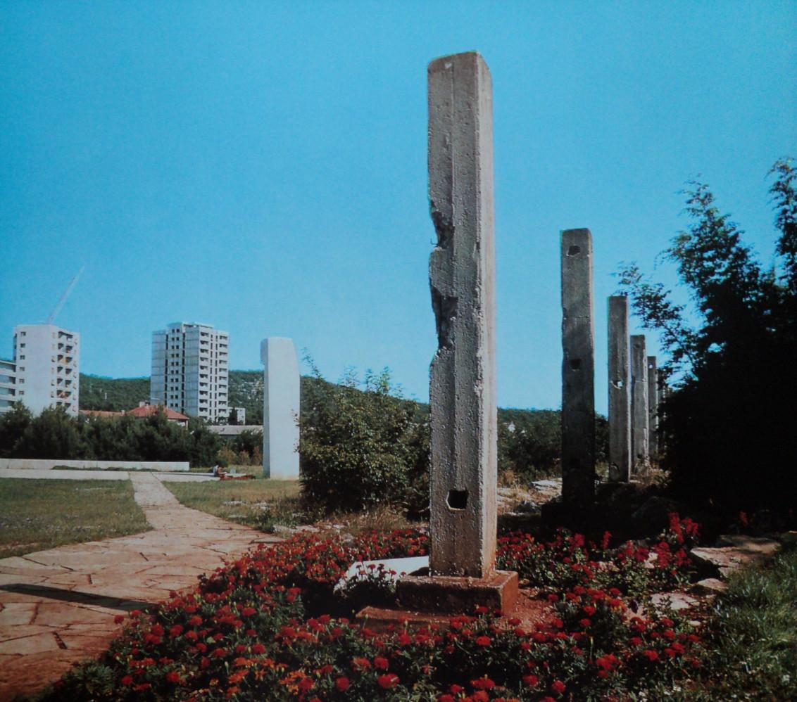 Photography of Šubićevac Memorial Park in Šibenik, taken in the middle of 1970s.